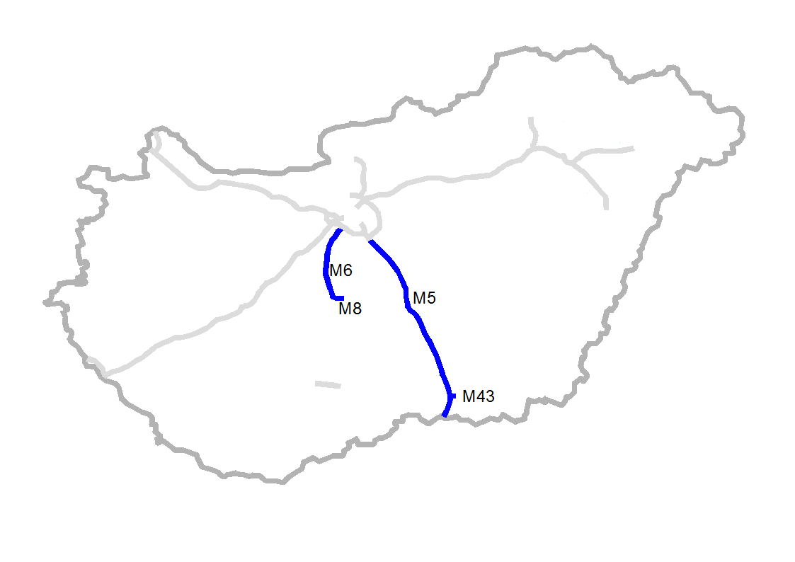 Motorways in Hungary, Operated by Intertoll